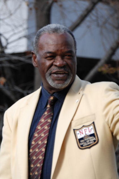 Rayfield Wright, former Dallas Cowboys football player and member of the NFL Hall of Fame. Taken by J.Glover on December 31, 2006 with a Nikon D80.